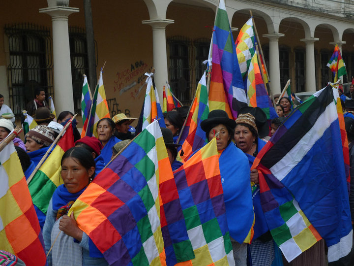 Bartolina Sisa manifestation, Trinidad